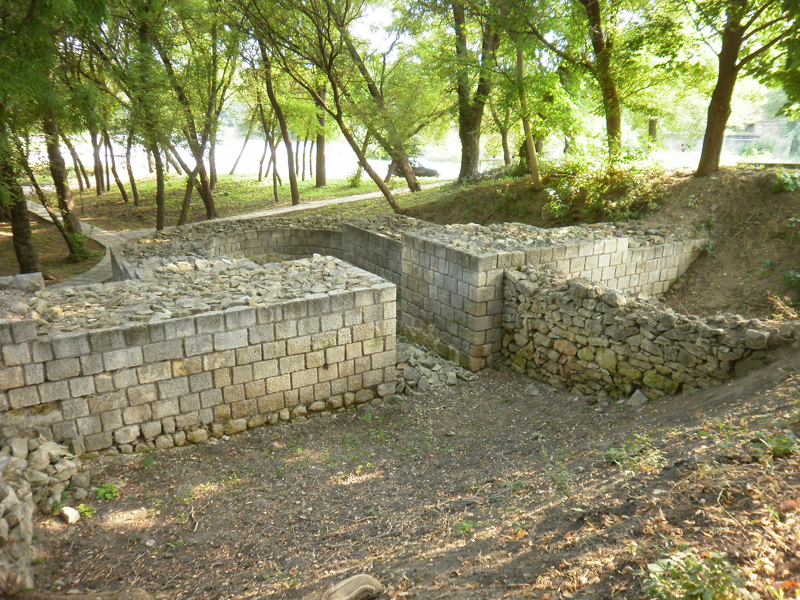 Abrittus, Bulgaria.